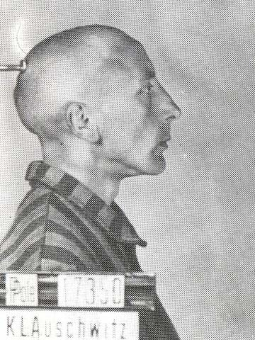 Józef Kowalski- beatified salesian priest, one of the 108 Martyrs of World War Two